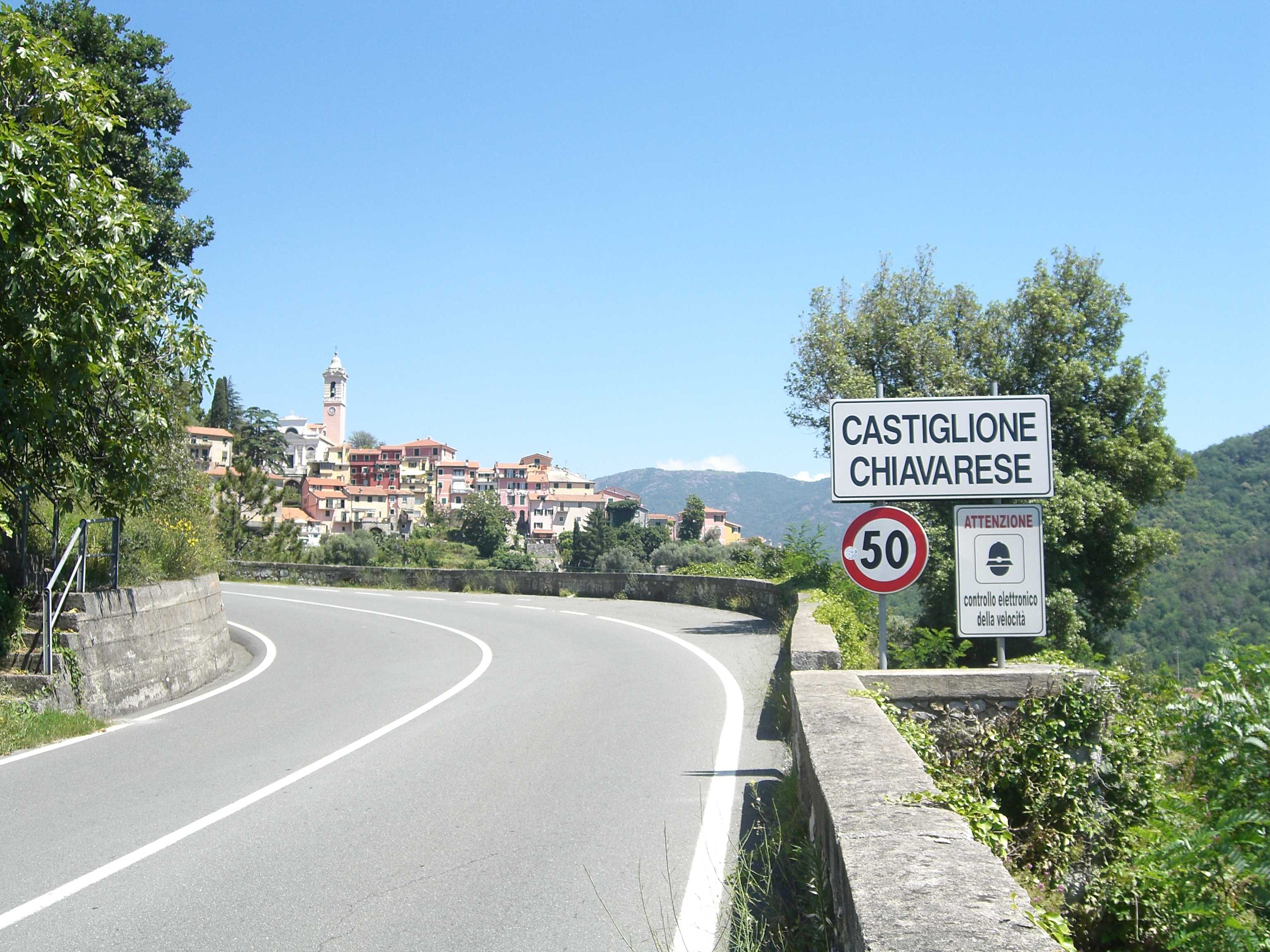 West entrance of Castiglione Chiavarese, from Localitá Colla, looking East, towards downtown.